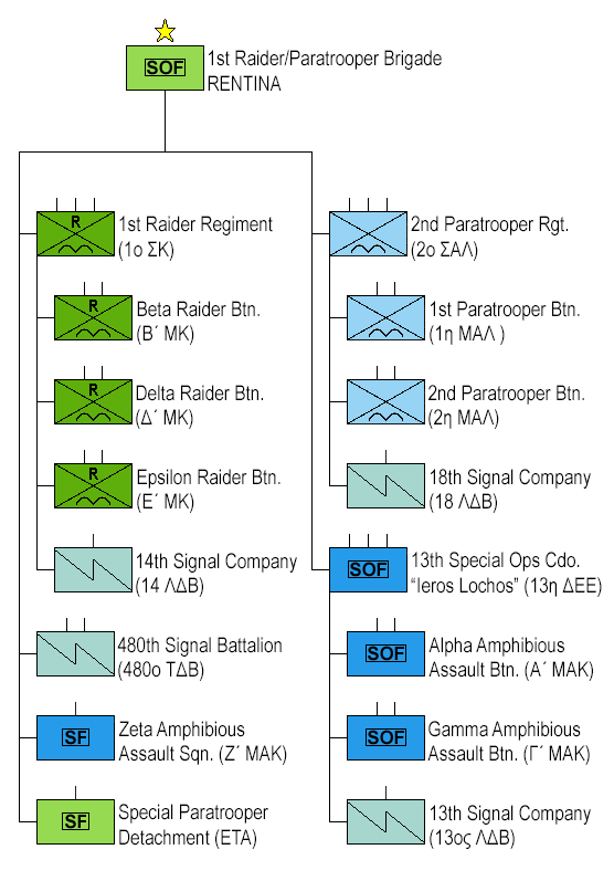 Hellenic Army 1st Commando/Para Brigade Structure